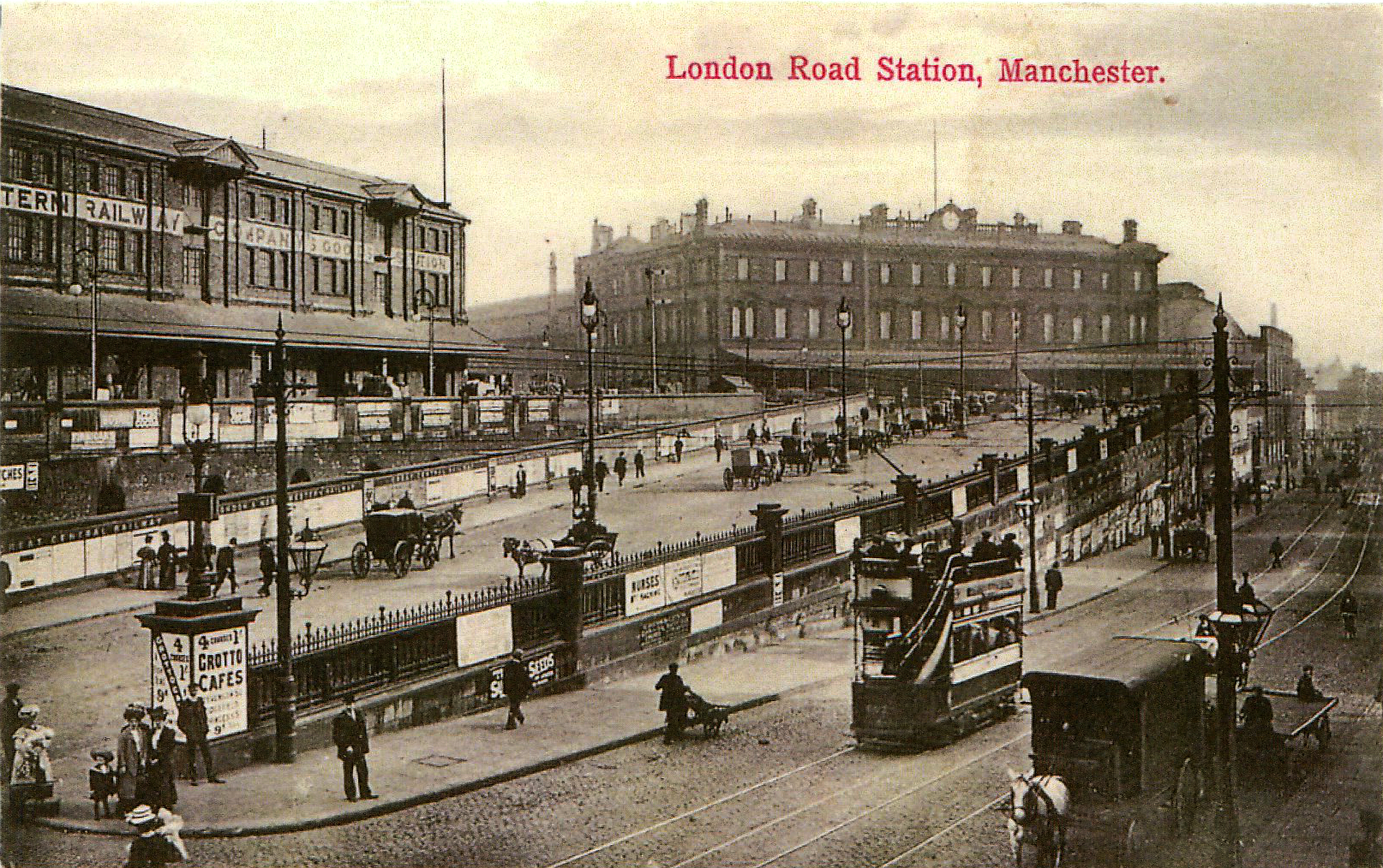 Manchester London Road station. The Manchester tram network (seen in the picture) was electrified between 1901 and 1903, so it was probably taken after 1903, and the lack of motor traffic indicates this was probably before 1910, so it was probably taken circa 1905.